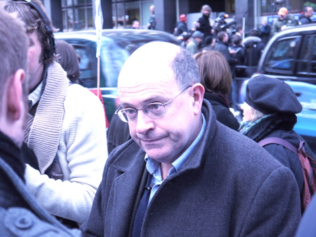 John Sweeeney in front of the Westminster Magistrates court on 14 December 2010. This is where Julian Assange had a court hearing and a large solidarity demonstration gathered in advance.